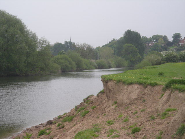 Erosion & the River Severn The spires of St Mary's & St Alkmunds can be seen peering over the treetops.